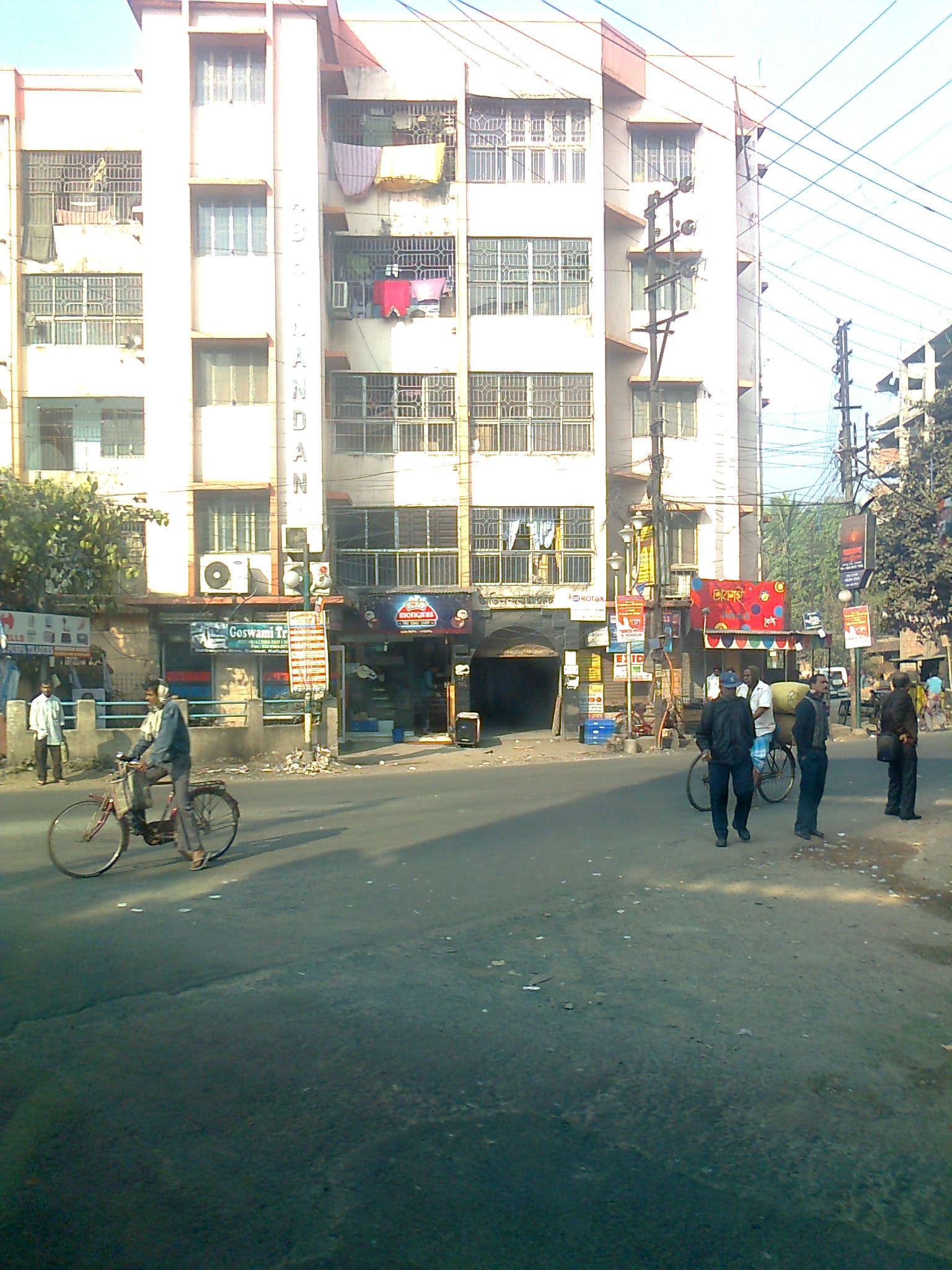 Dukbangalo More, Barasat - A Junction of NH34 and NH35